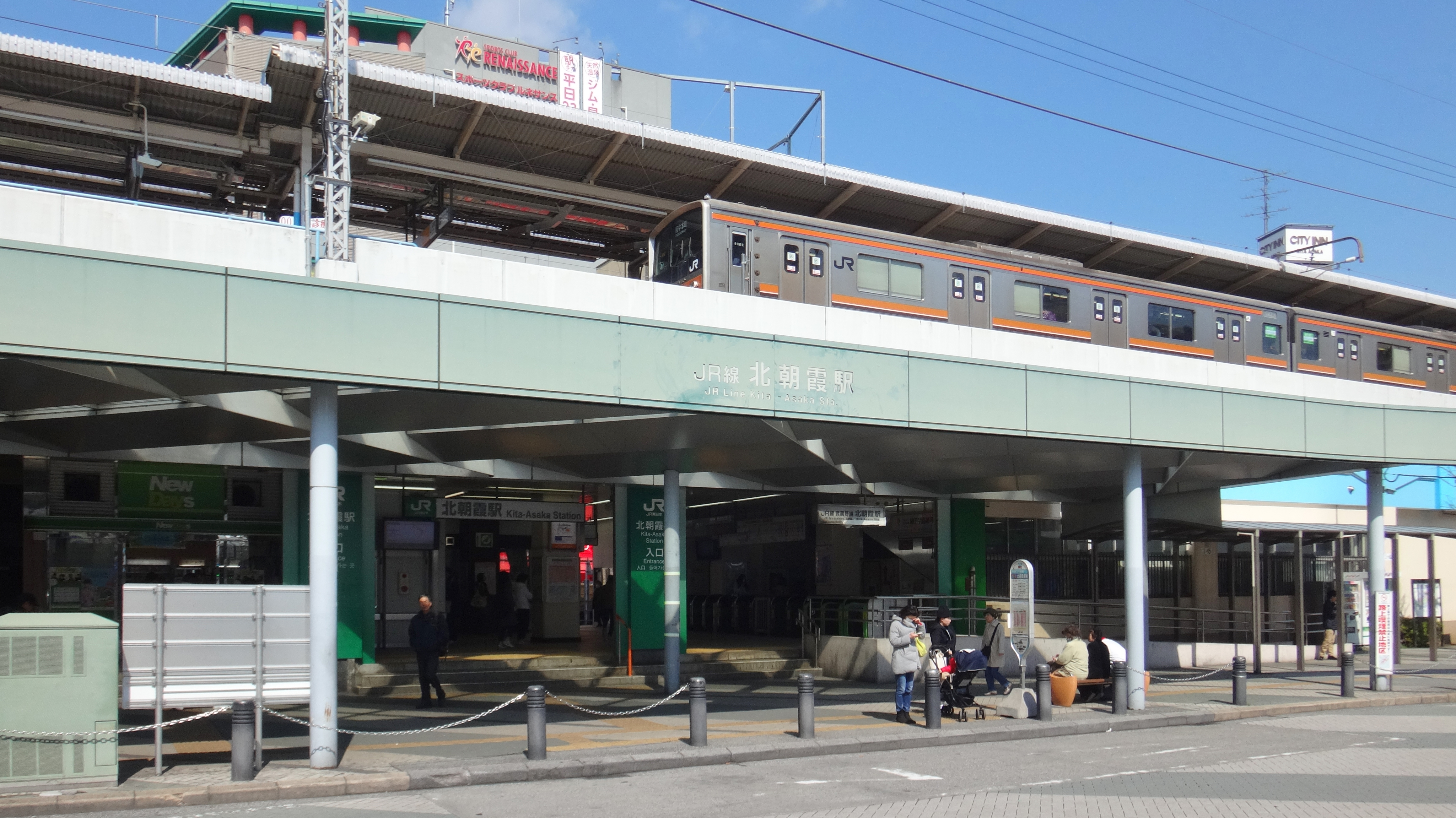 The south entrance of Kita-Asaka Station on the Musashino Line in Saitama Prefecture, Japan